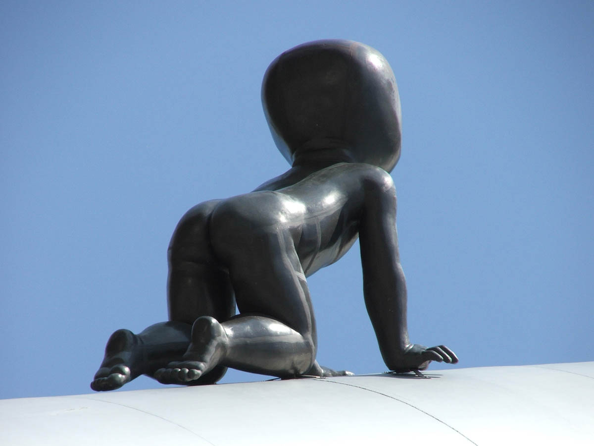 Babies by David Černý on Žižkov TV tower, Prague, Czechia